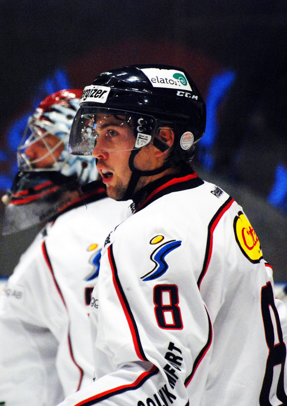 Albin Lorentzon of Linköping HC in a SHL game.